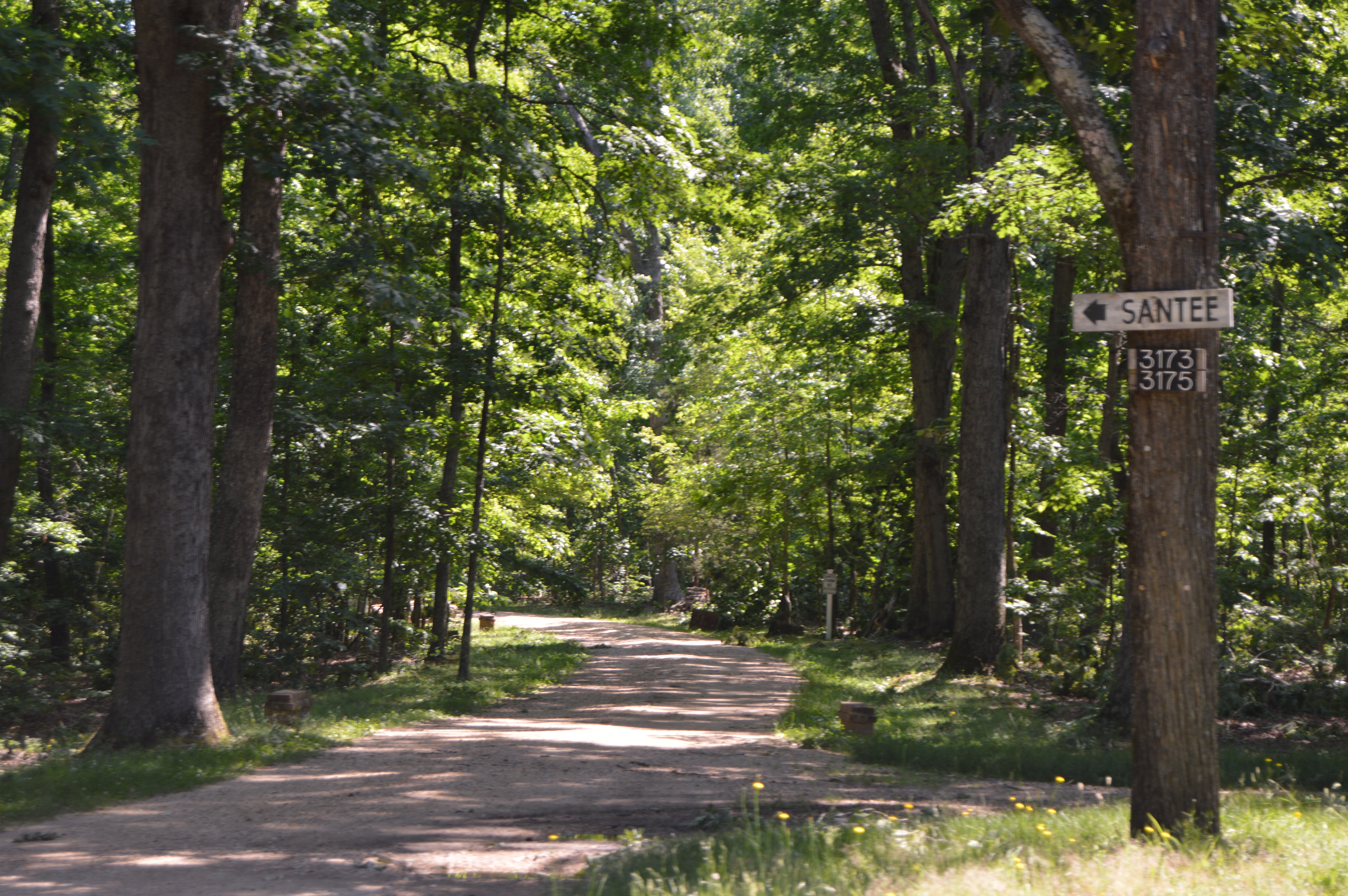 Entrance to the Santee farmstead, located off Pepmeier Hill Road just north of Fort A.P. Hill in Caroline County, Virginia, United States. The farmstead is listed on the National Register of Historic Places.